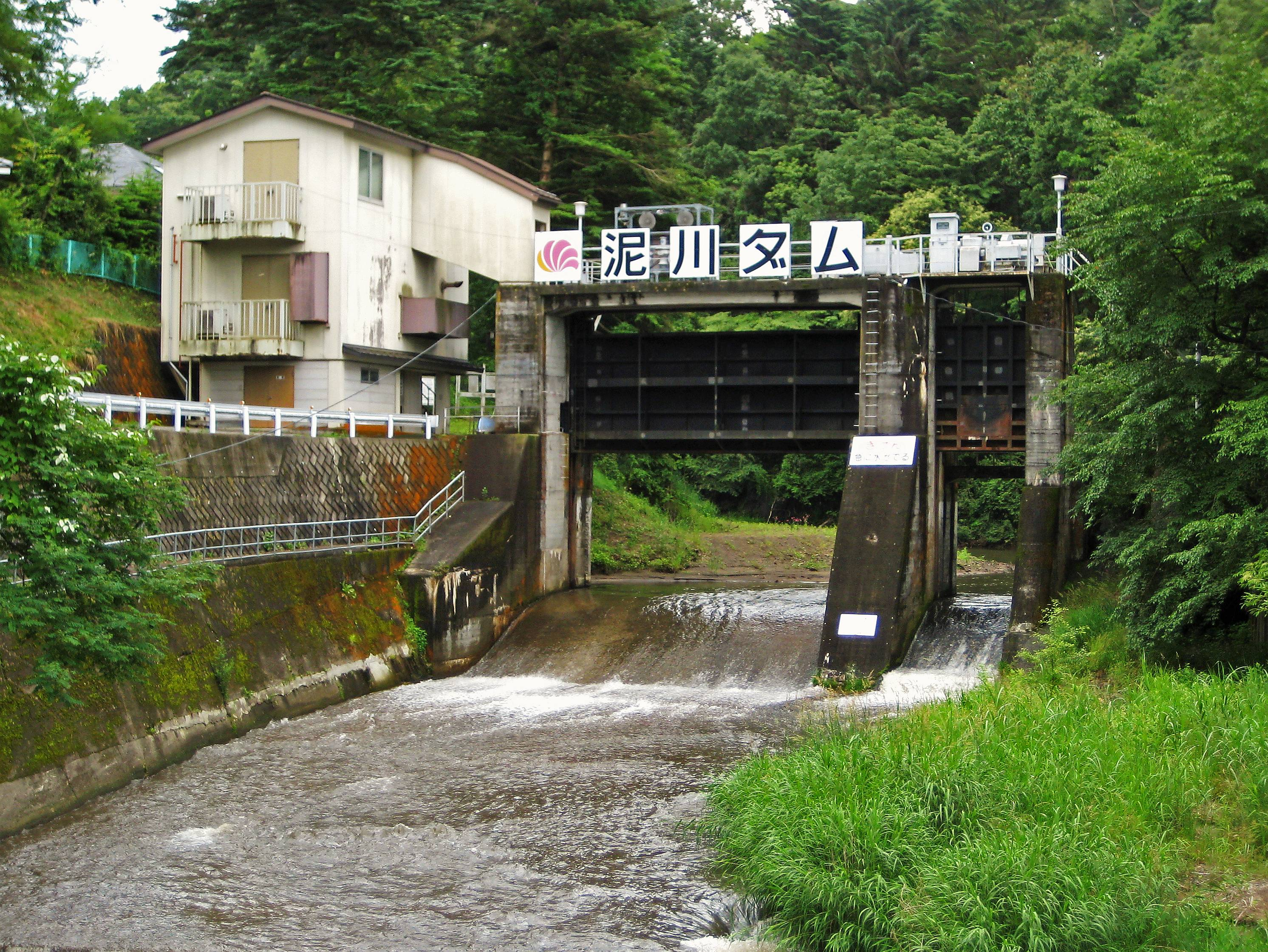 Dorogawa Dam.